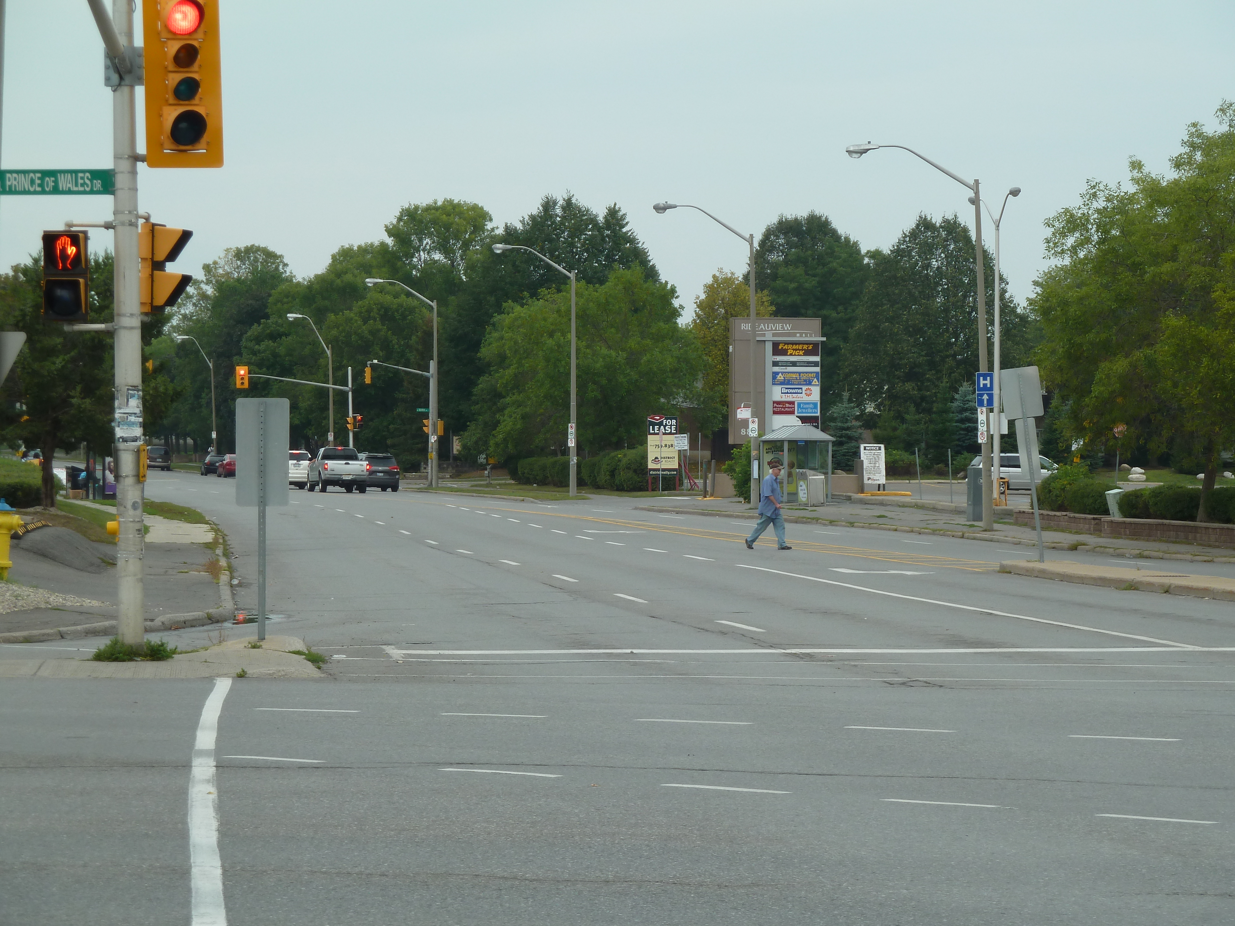 The intersection of Meadowlands Drive and Prince of Wales Drive in Ottawa